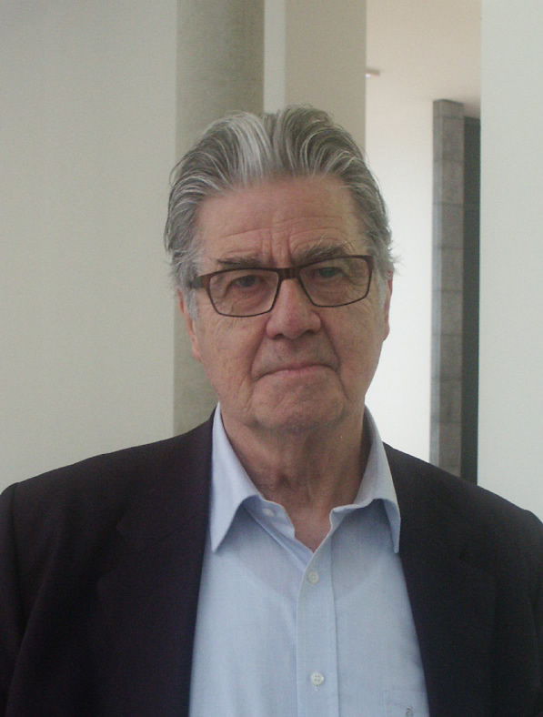 Franz Gertsch in Museum Kurhaus Kleve, in Germany 16-3- 2014